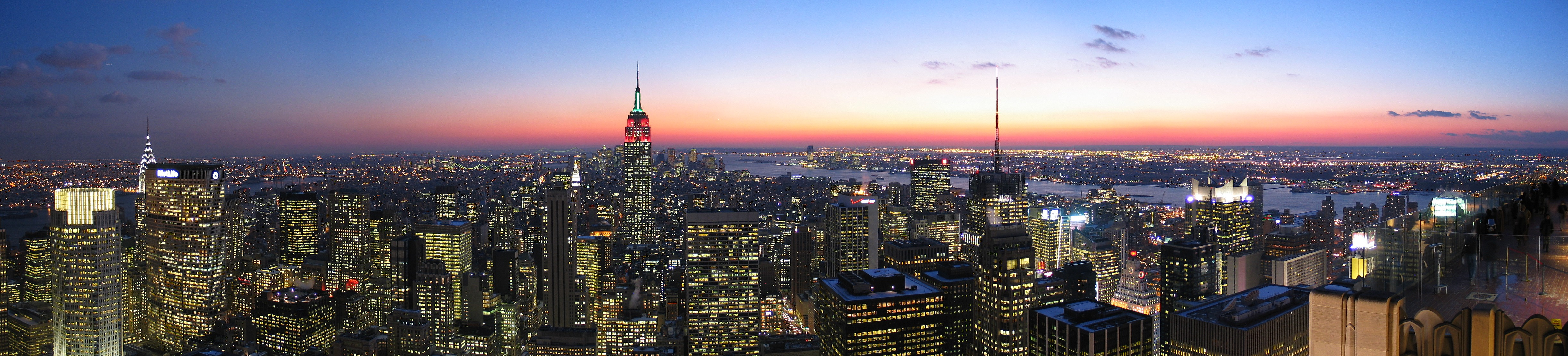 Panoramic image looking south from the upper deck of the 'Top of the Rock' observation deck on Rockefeller Center. Lower deck is visible on the right edge of the frame.